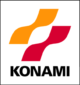 Konami's 3rd logo 中文（台灣）: 科樂美第三代商標